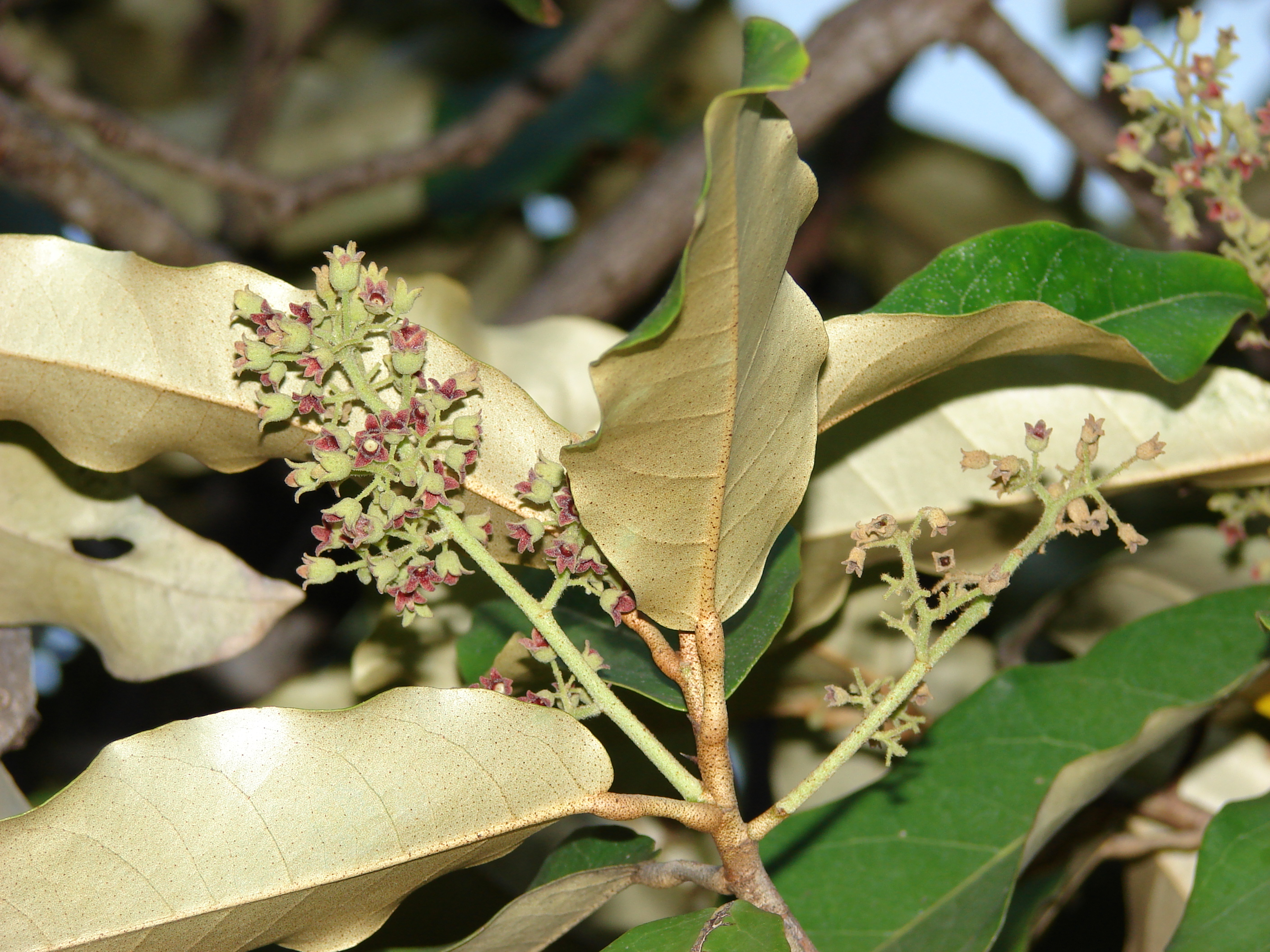 Heritiera littoralis (leaves and flowers). Location: Oahu, Ala Moana Beach Park